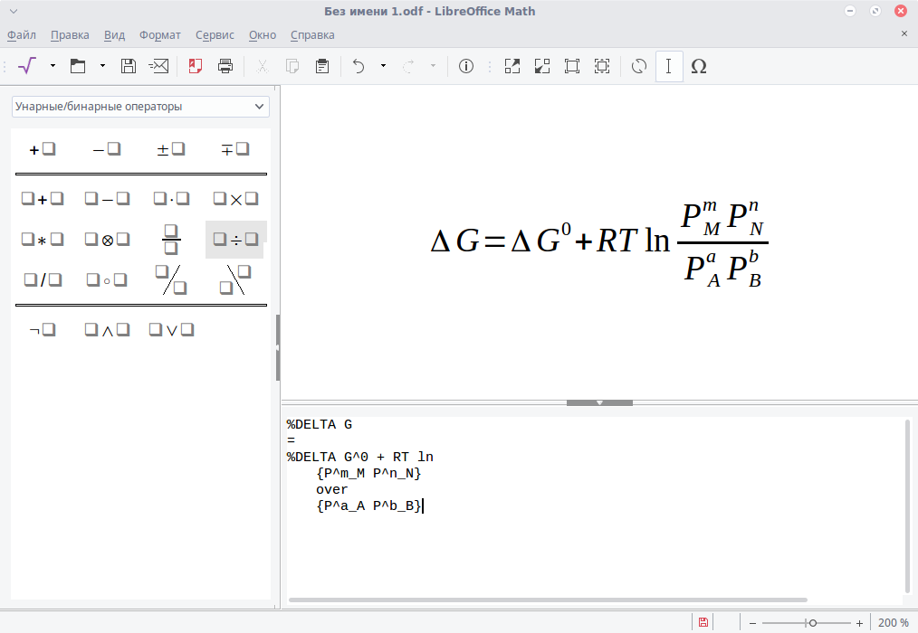 LibreOffice Math